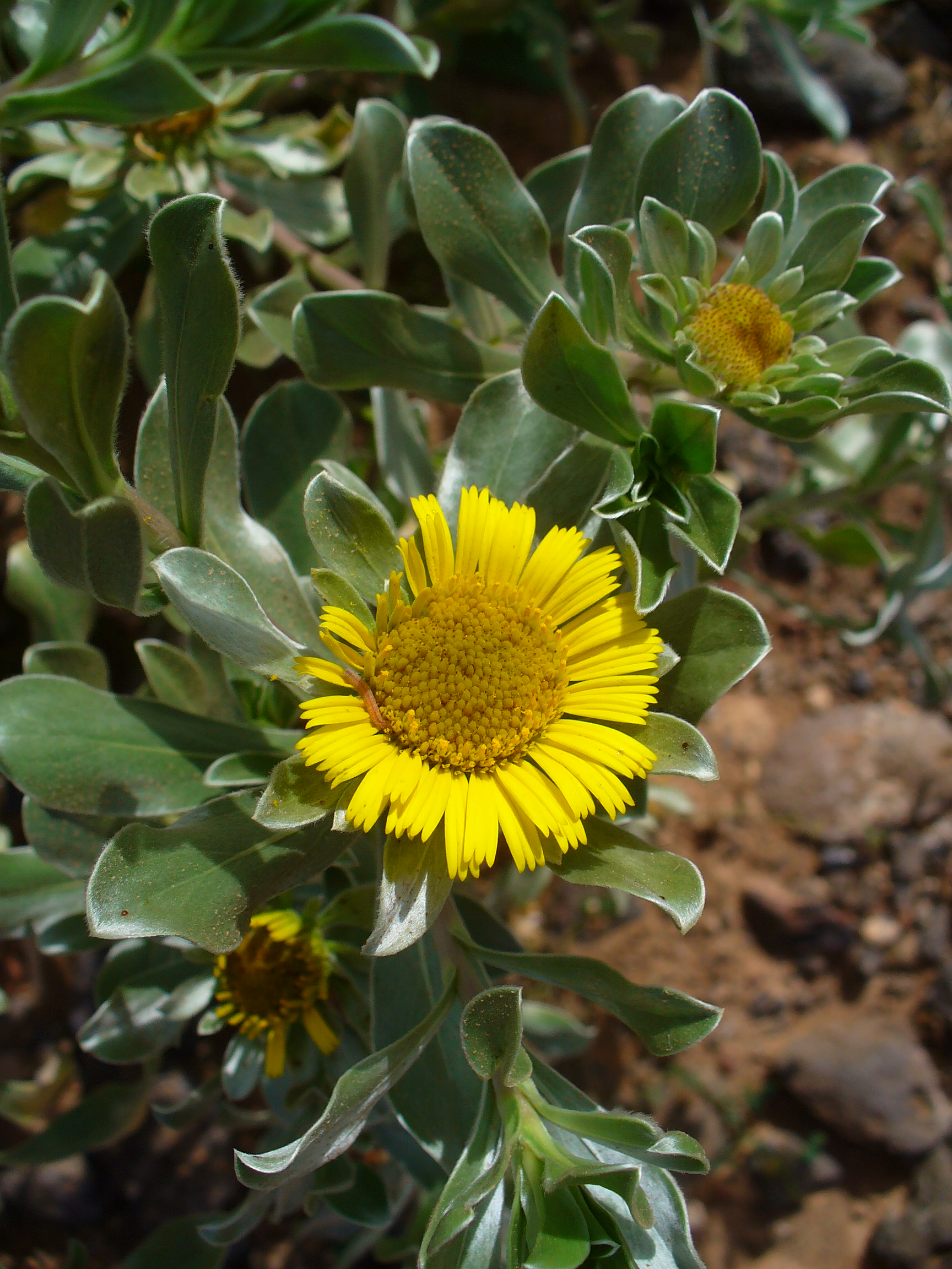 Inflorescence; Costa Teguise, Lanzarote, Canary Islands, Spain.